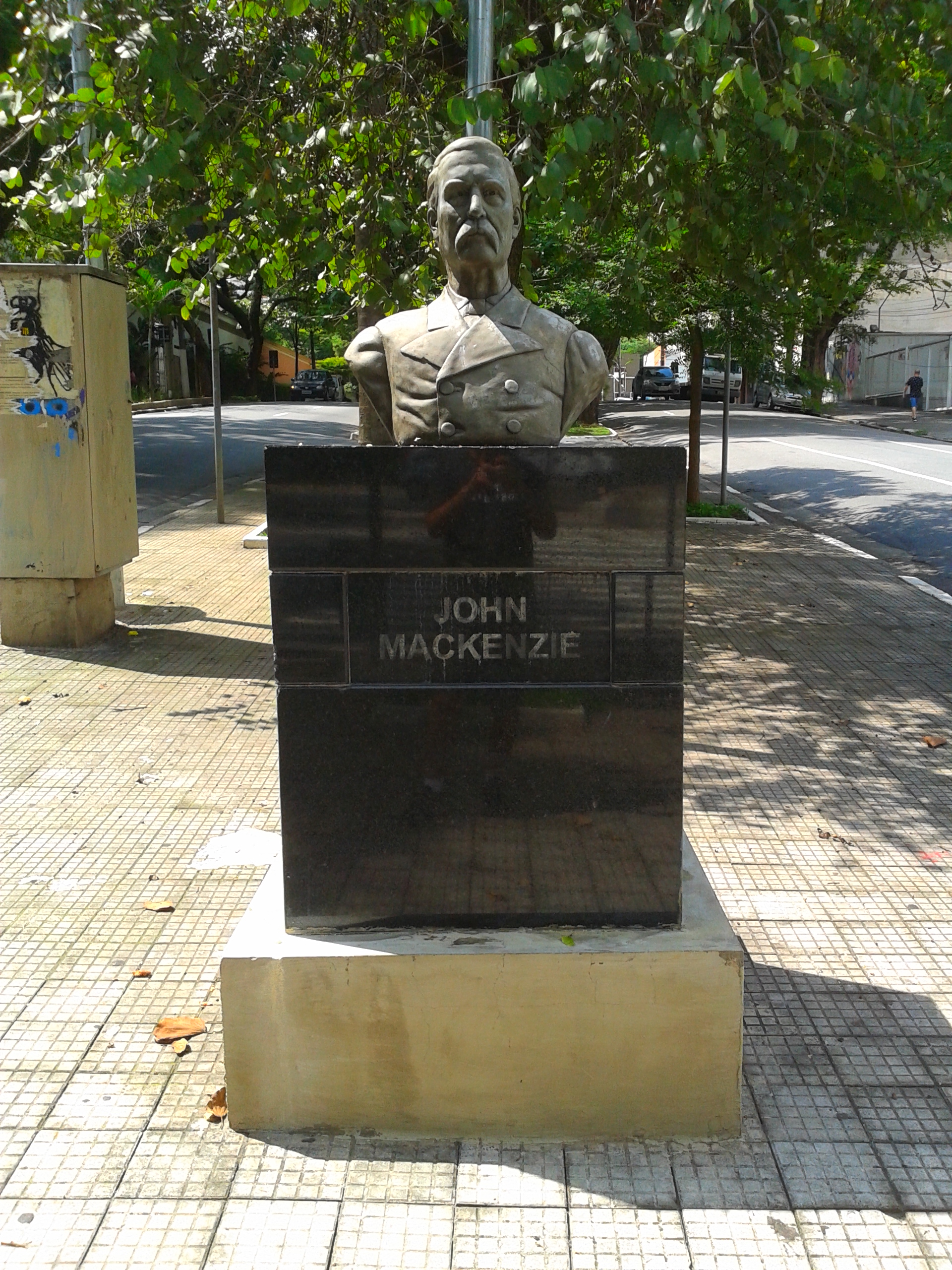 John Mackenzie bust, located at the Rua da Consolação.